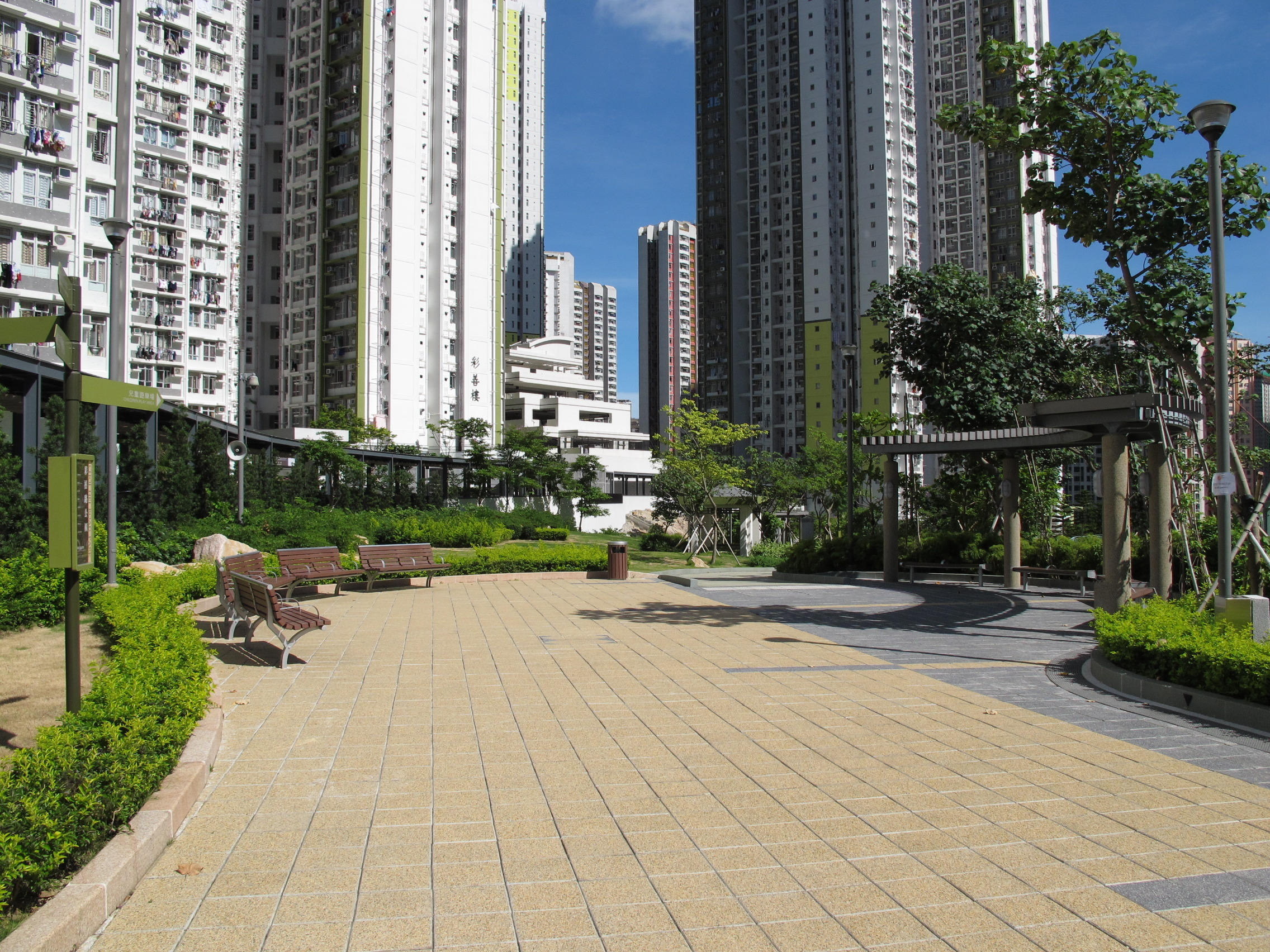 Choi Hei Road Park